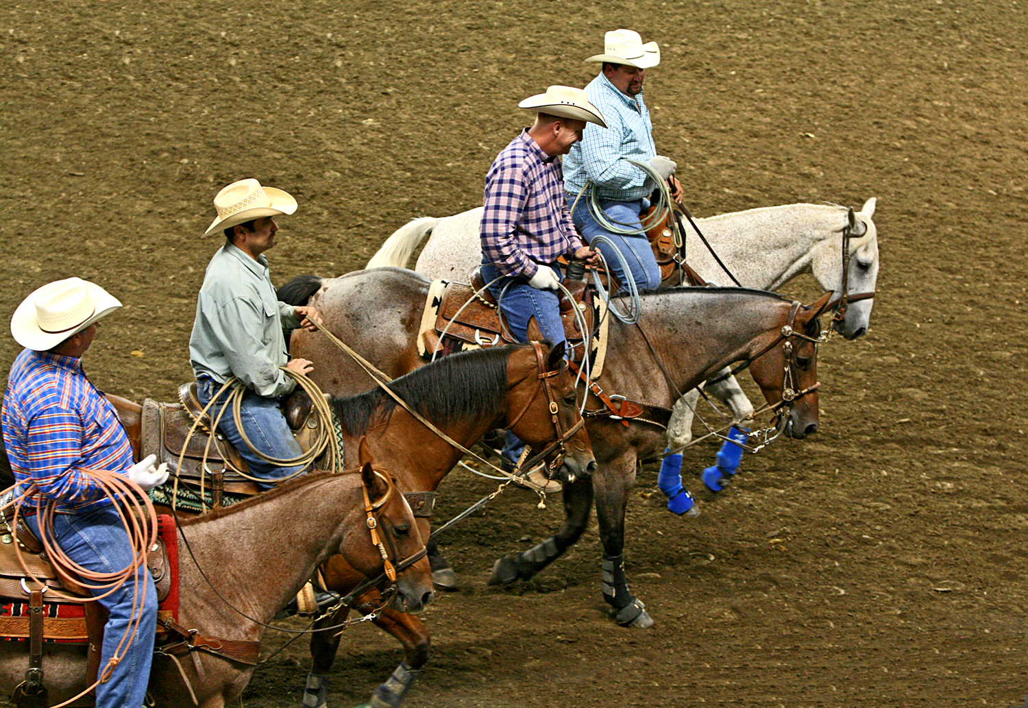 photo by Heather Abounader